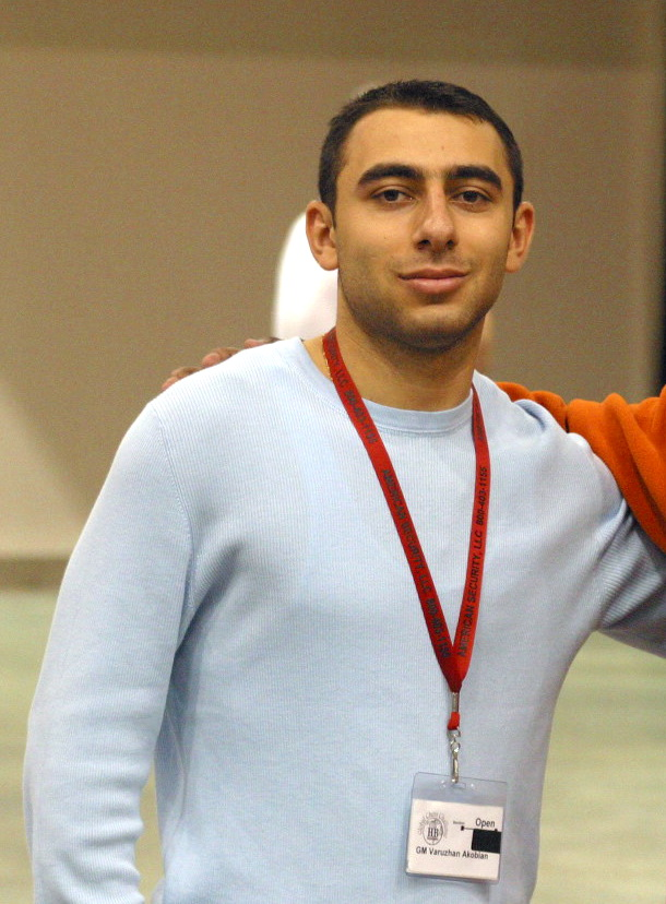 GM Varuzhan Akobian, United States of America